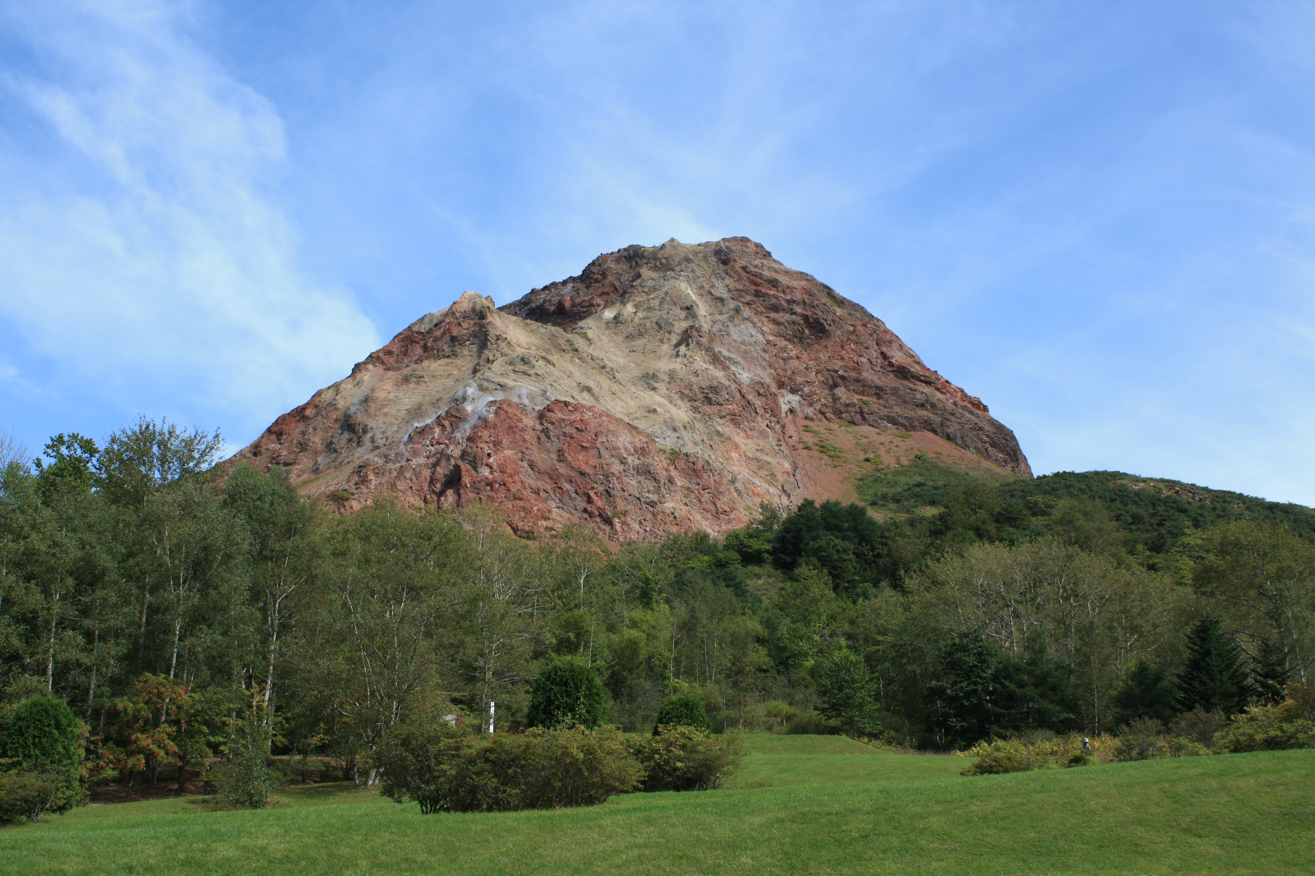 Showa-shinzan in Sobetsu, Hokkaido, Japan. It is a Volcanic Lava dome.